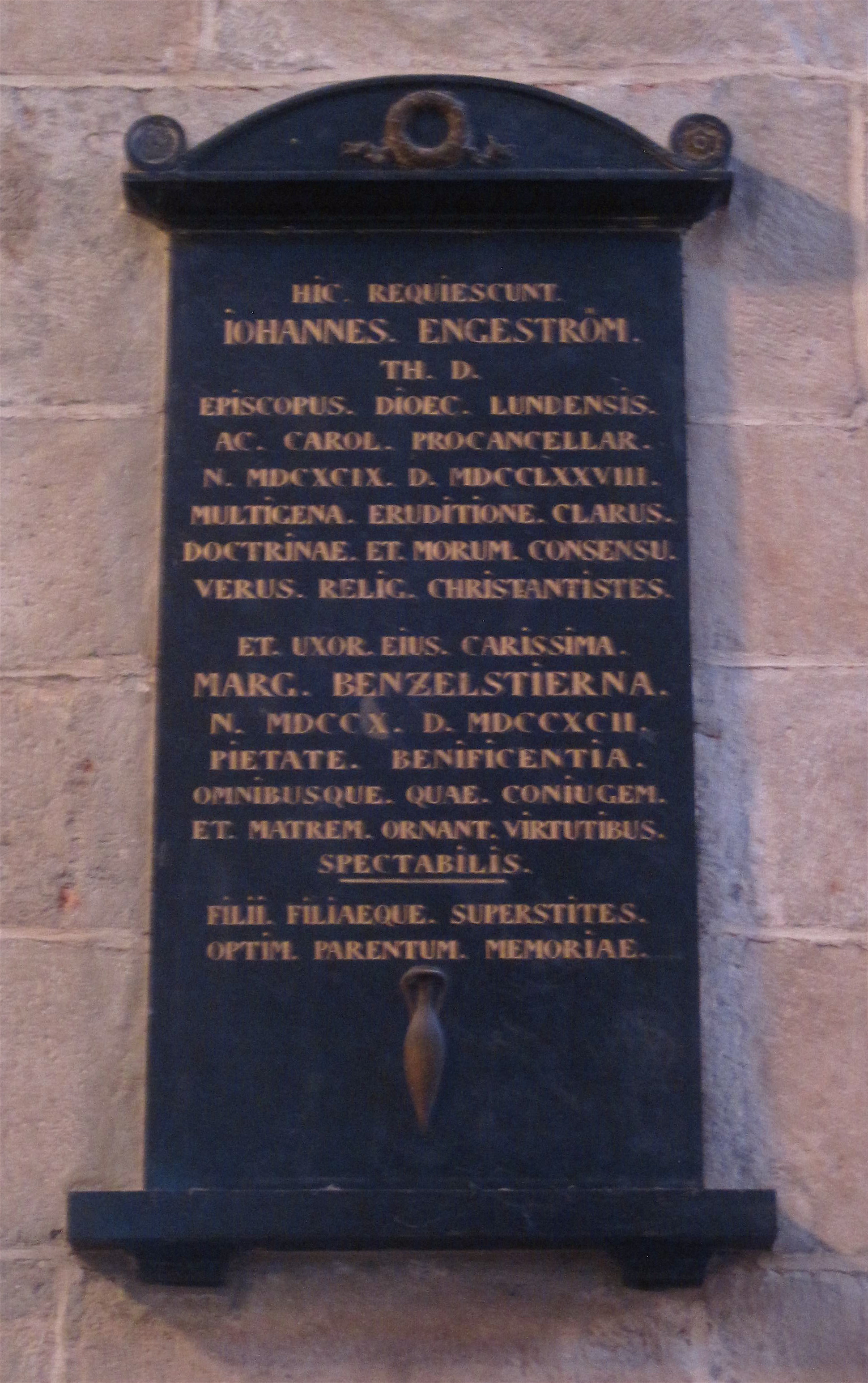 Epitaph for bishop Johannes Engeström (1699-1777) in Lund Catherdral.